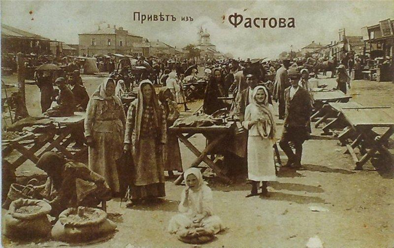 View of market place of Fasov town in Kiev Gubernia, Russian Empire. 1910-s